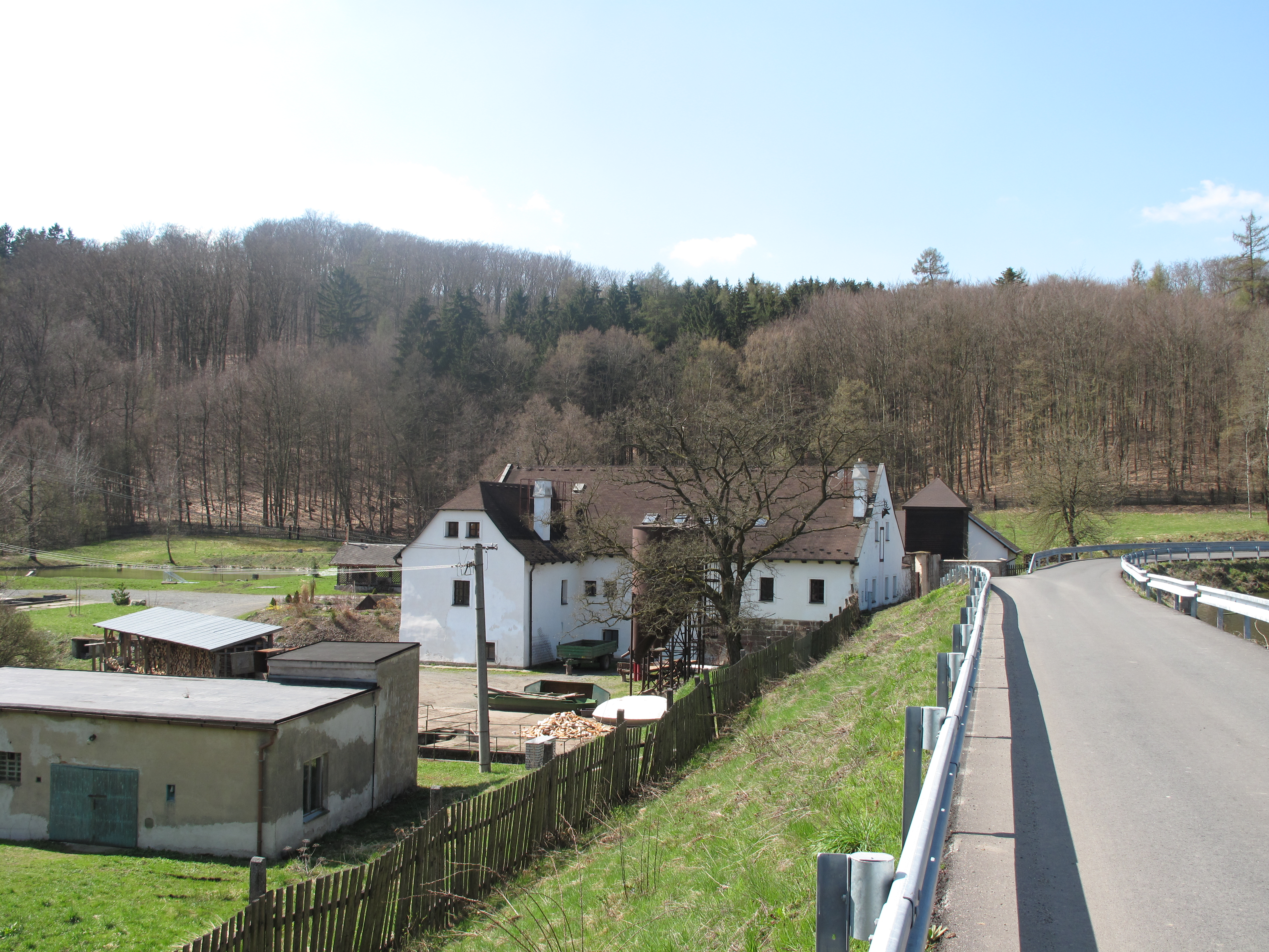 Houses in frong of Jevany Pond's dam, Prague-East District, Czech Republic. Forest Establishment at Kostelec nad Černými Lesy of the Czech University of the Life Sciences Prague. This photograph was taken within the scope of the 'Czech Municipalities Photographs' grant.